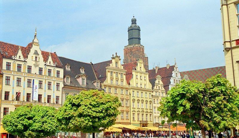 Market Square in Wrocław and Church of St. Elisabeth in Wrocław